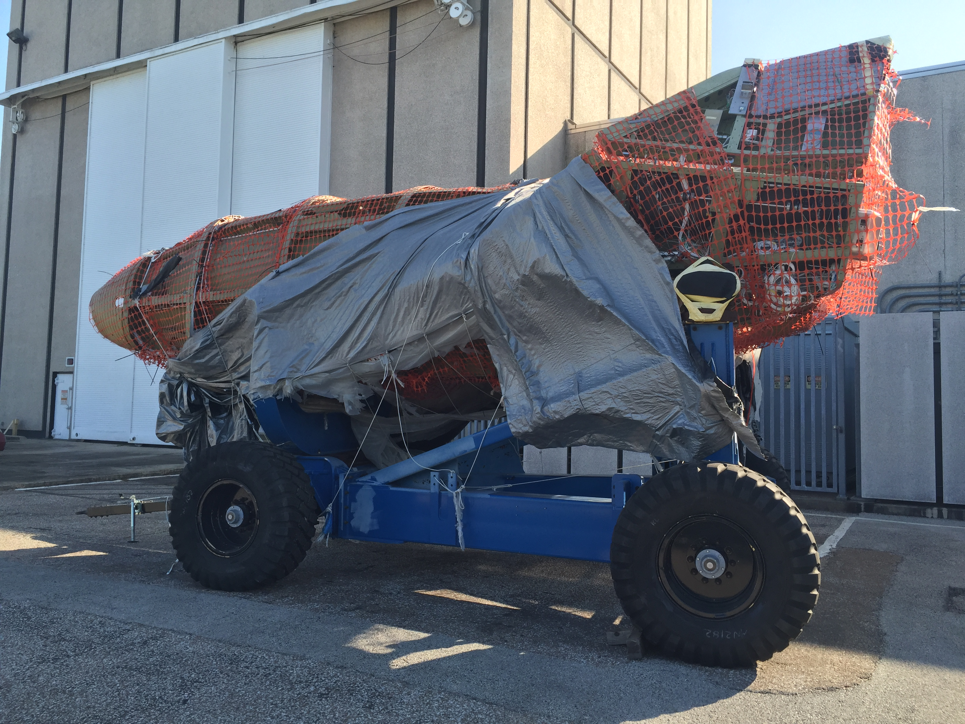 X-38 Vehicle 201 sitting atop its mobile carrier outside B49 of the Johnson Space Center in Houston, Texas. The X-38 is being stored outside with no protection from the elements.